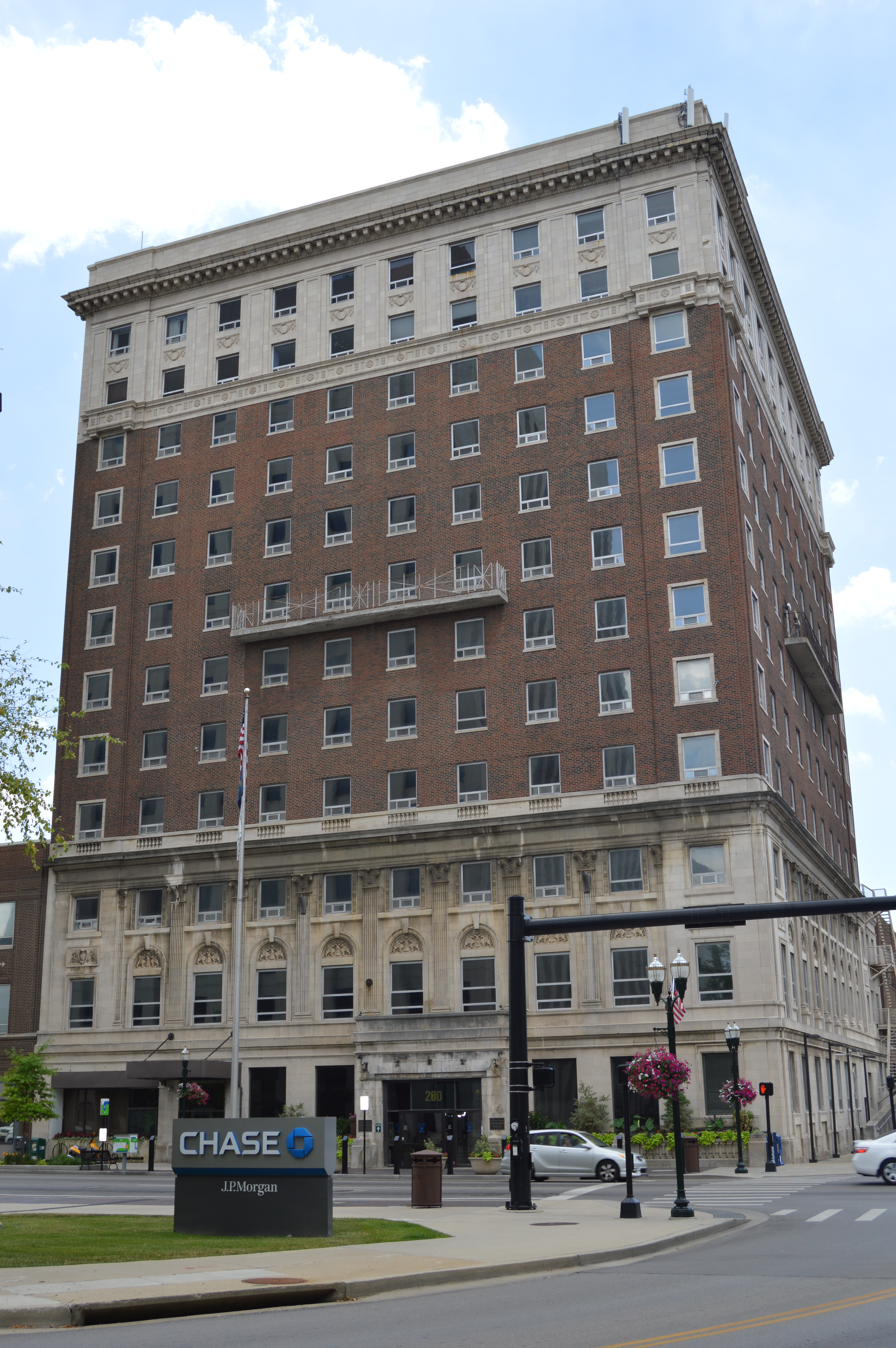 Front of the former Lafayette Hotel, located at 200-206 E. Main Street (U.S. Routes 25/60/421) in downtown Lexington, Kentucky, United States. Built in 1920 and now part of the Lexington-Fayette County Government Building Block, it is listed with the rest of the government complex on the National Register of Historic Places.